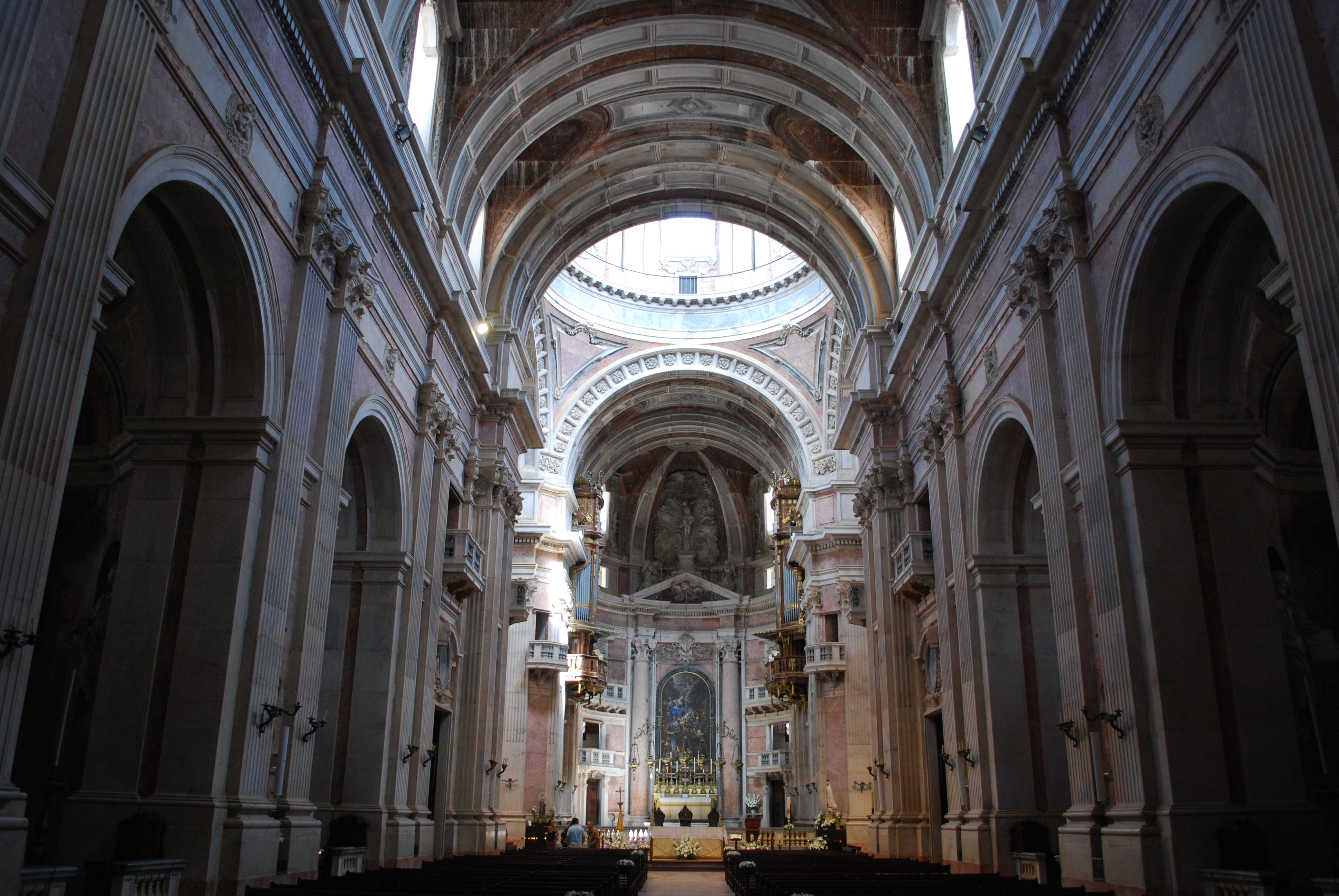 This file was uploaded for Wiki Loves Monuments in Portugal with the unique identifier 69940.